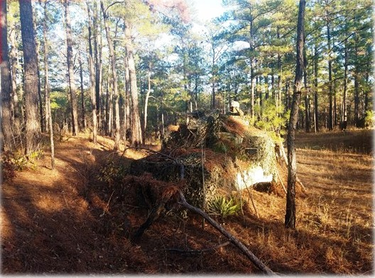 U.S. Army Reconnaissance and Surveillance Leaders Course students practise concealing a vehicle and using it as an observation platform.